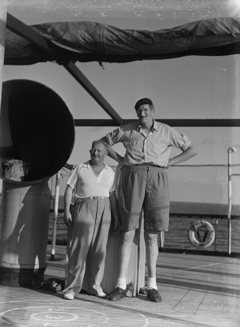 Onboard the 'San Francisco'